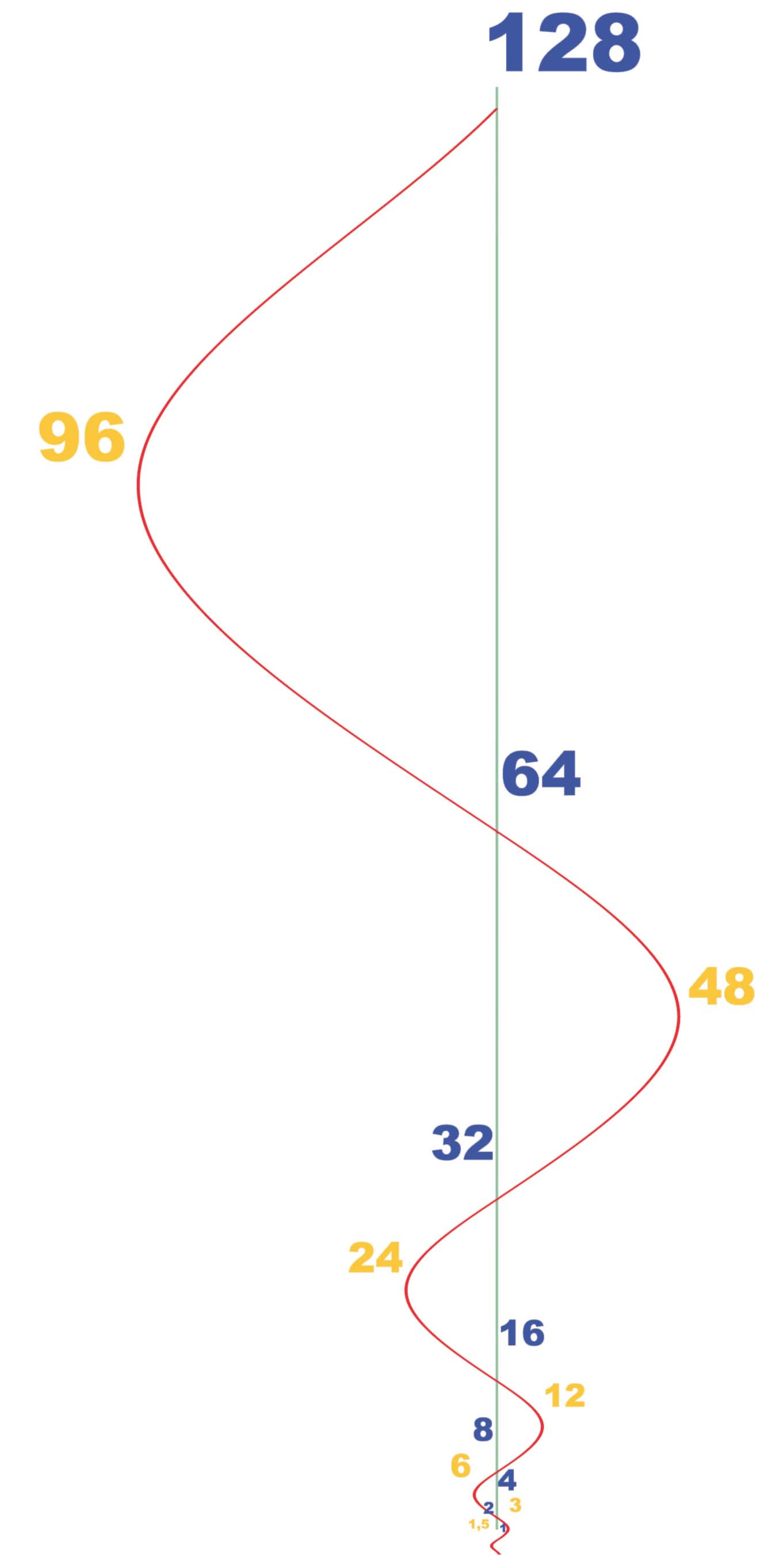 A 3-D metre to calculate the size of buildings